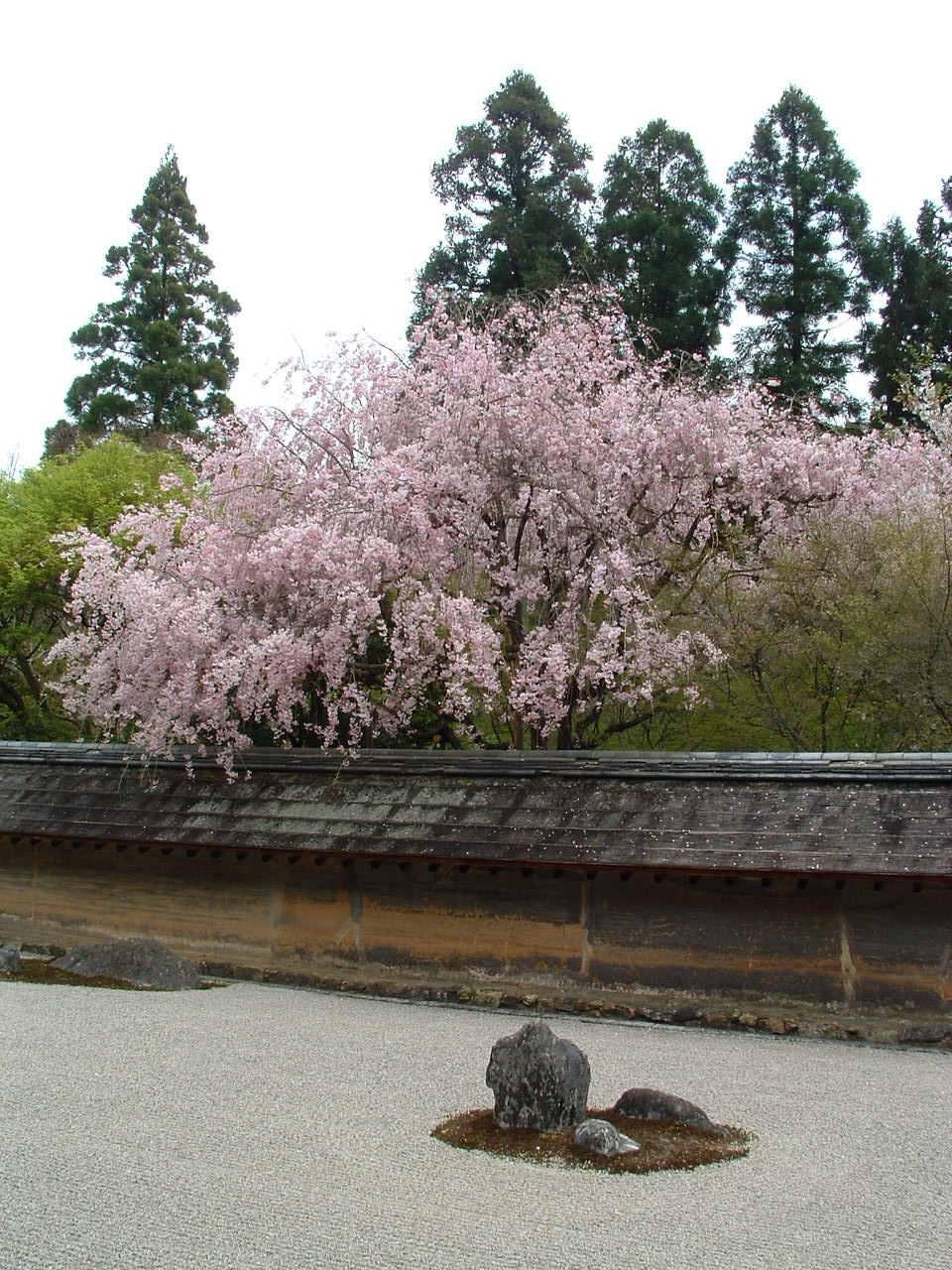 Ryoanji stone garden to the south. Photograph by Gakuro